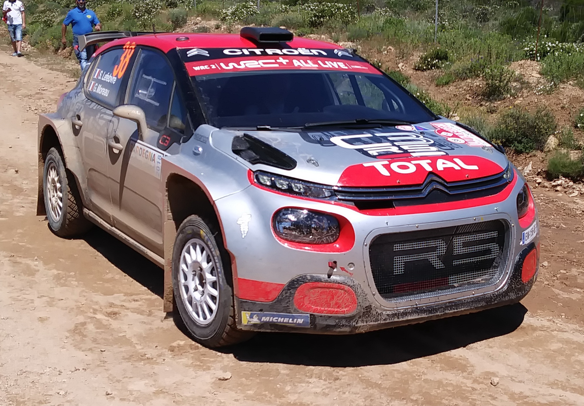 Rally Italia Sardegna 2018 - Lefebvre-Moreau after "Monti di Alà-1" stage